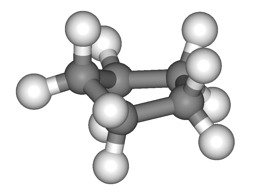 energy-minimized conformation of cyclopentane